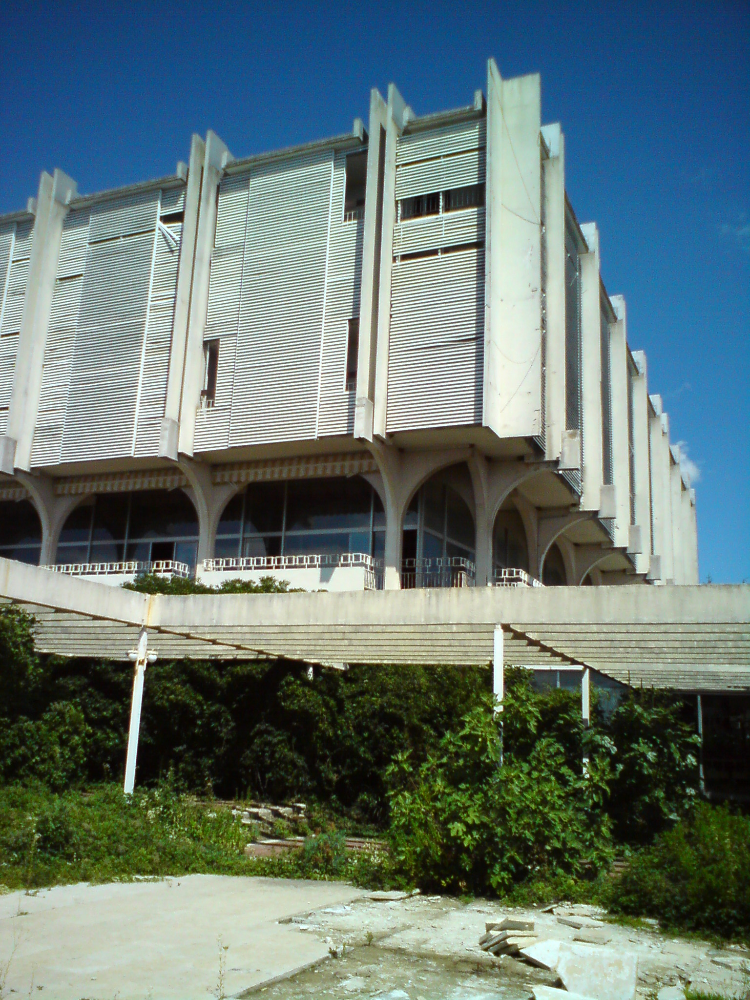 Reconstruction of the hotel complex Haludovo Malinska, Croatia. The first phase is - destruction.